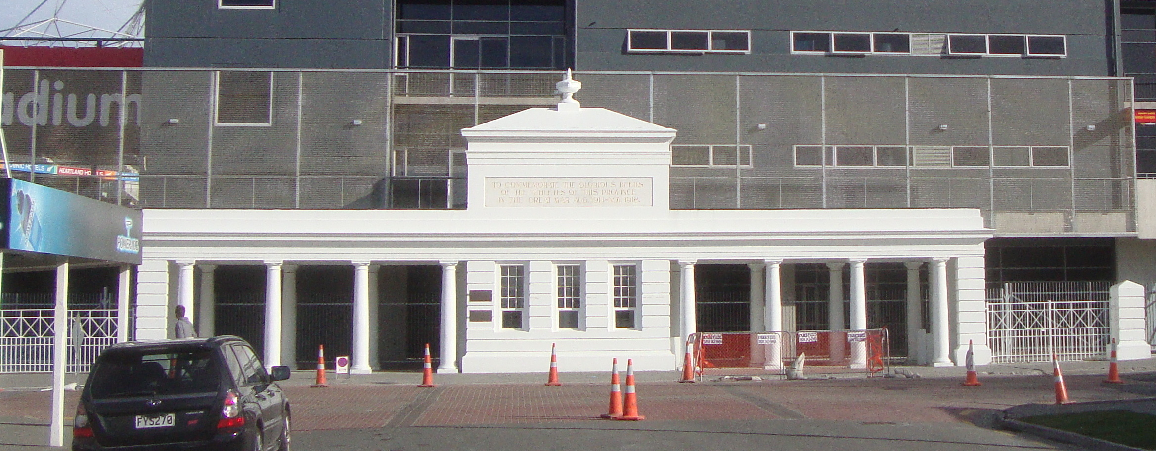 Memorial Entrance Gates Lancaster Park, the only thing currently remaining of the demolished Lancaster Park in Christchurch, New Zealand